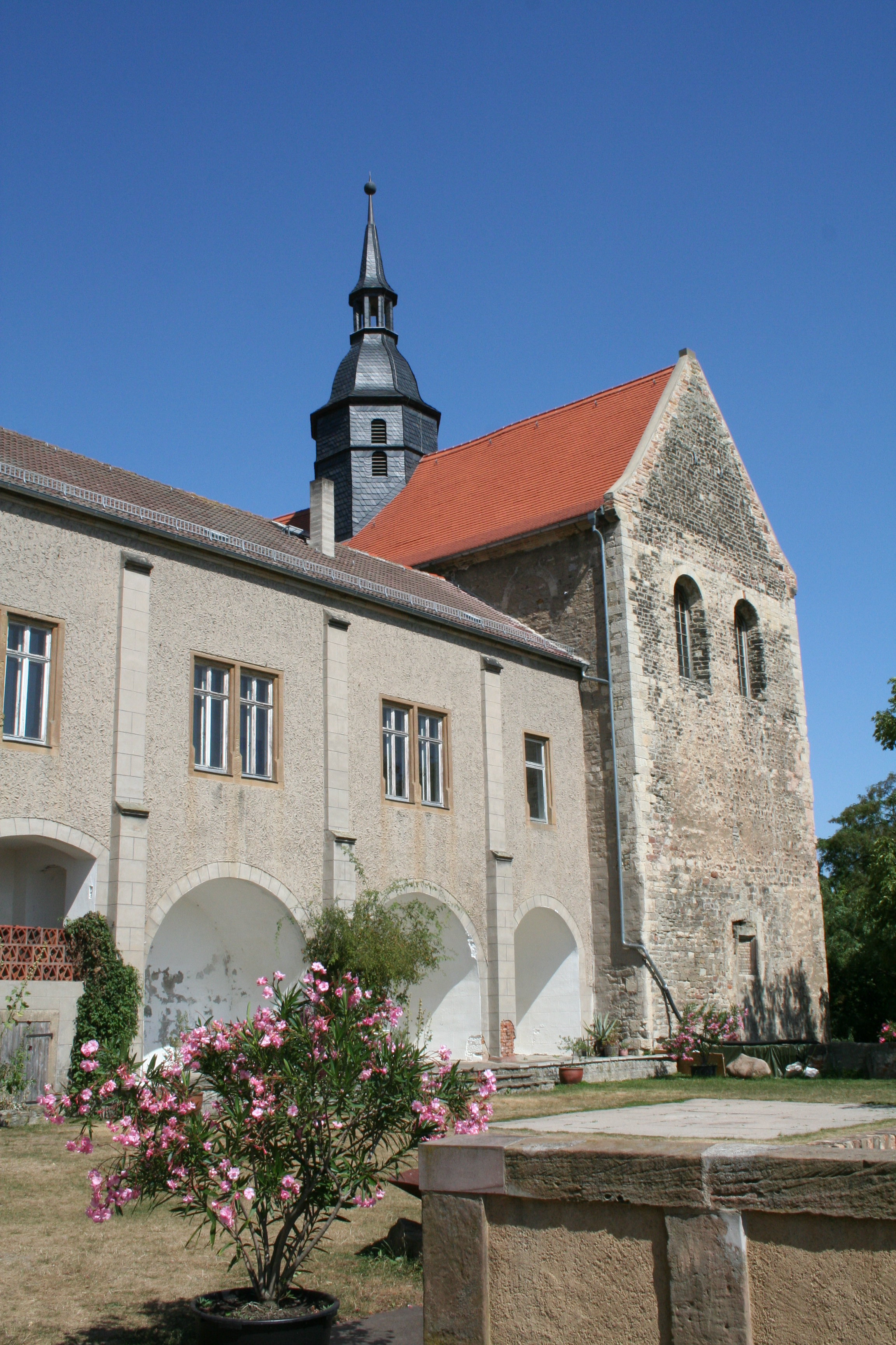 Goseck castle